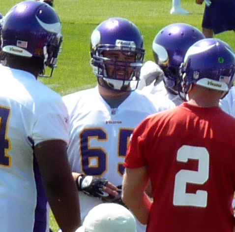 John Sullivan, while a member of the Minnesota Vikings, at the Vikings' 2009 Training Camp, Mankato, Minnesota, USA.